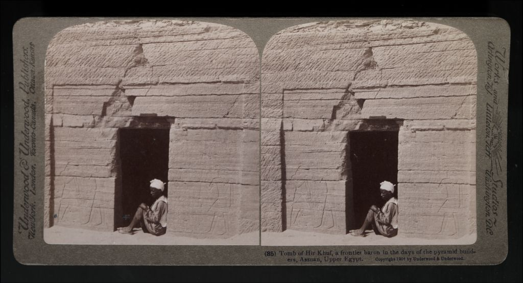 Man sitting in entrance of tomb